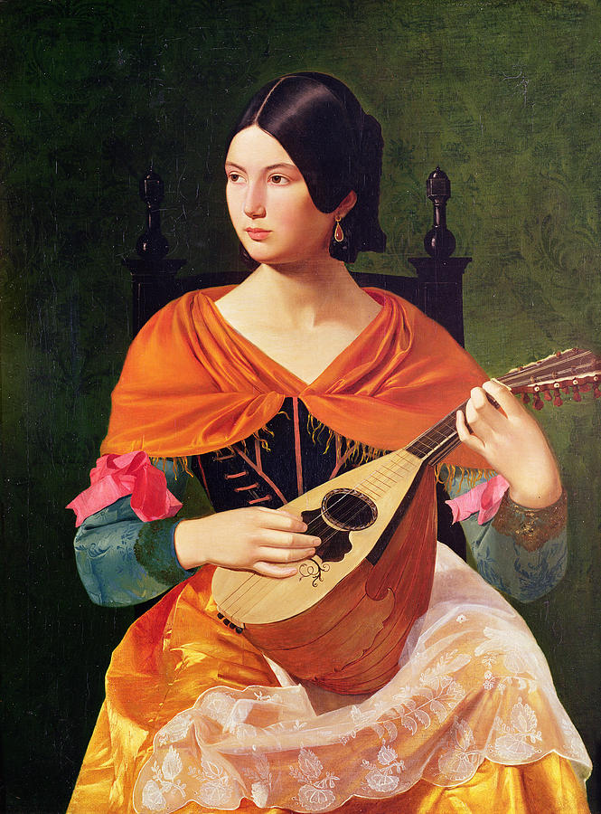 Oil on canvas painting by Vjekoslav Karas of a woman from Rome playing a mandolin, titled in Croation Rimljanka s lutnjom [translation: A romance with a lullabies].[1] This has also been called a lute, but the instrument has a mandolin's 8-string peghead. The painting is part of the collections of the Croatian History Museum in Zagreb.[1]